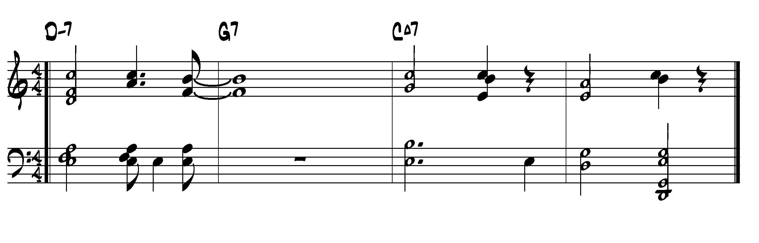 Jazz piano over a II-V-I progessions on C major